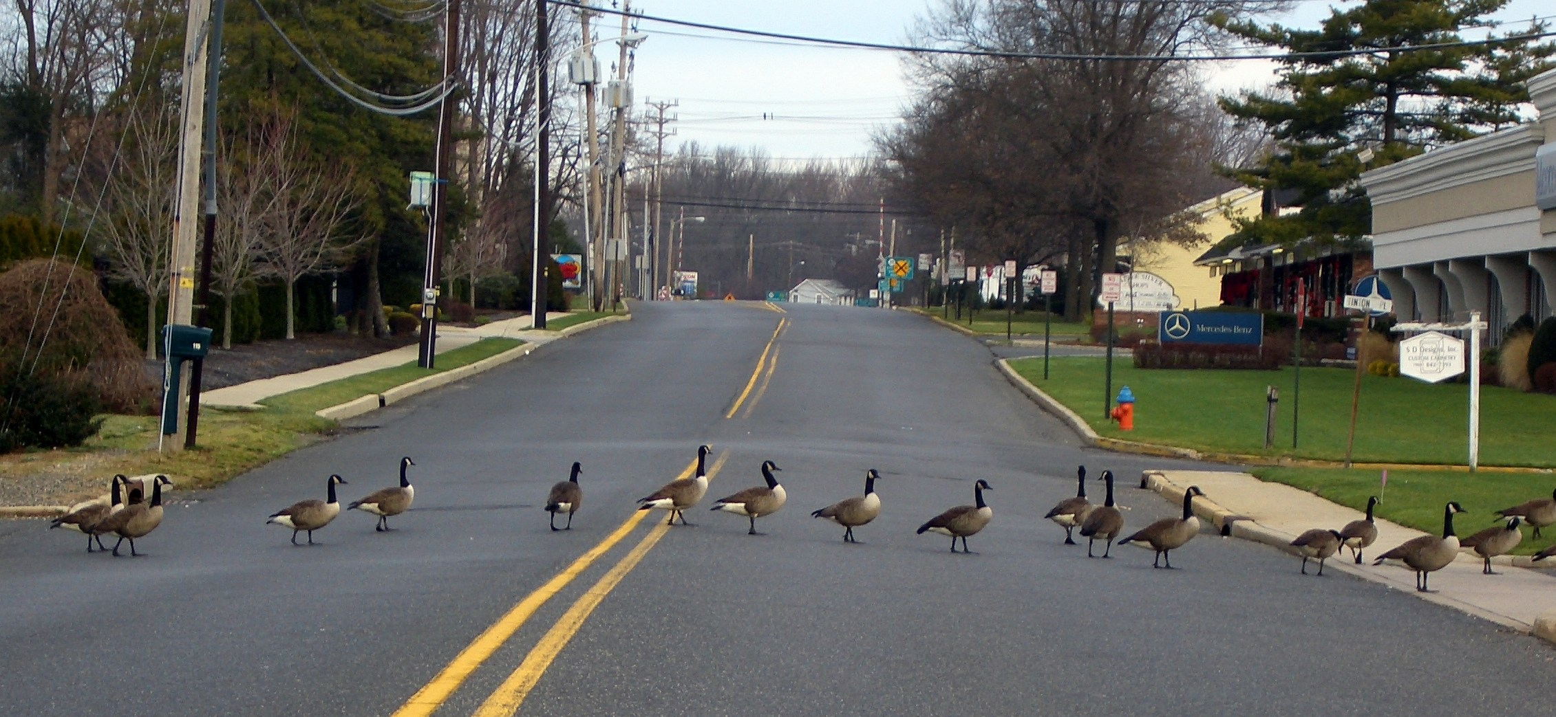 Canada Geese (Branta canadensis) crossing road in Little Silver, New Jersey, USA.